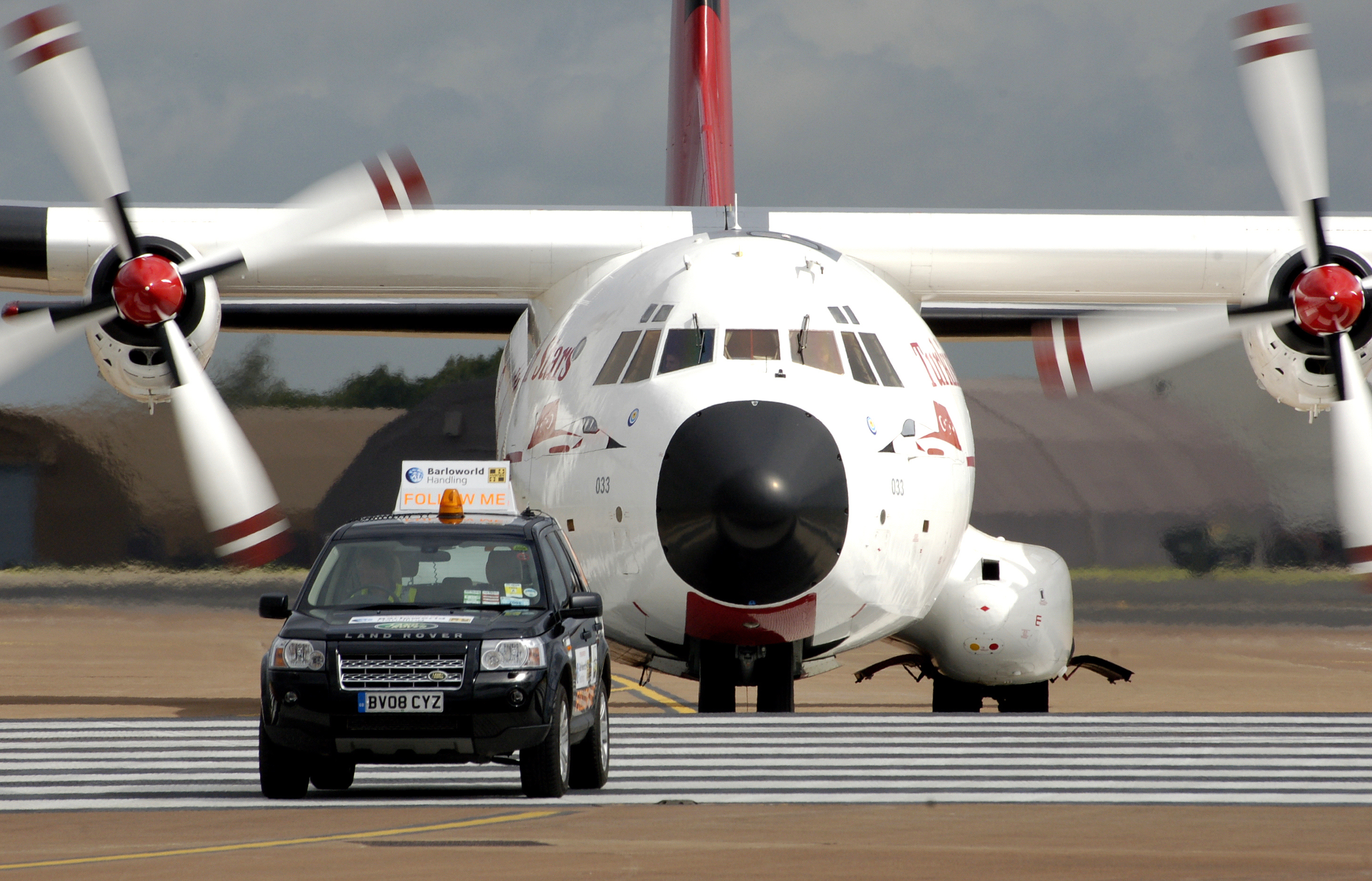 Turkish Air Force Transall C-160D (code 69-033) behind the Follow Me car at the 2008 Royal International Air Tattoo, RAF Fairford, Gloucestershire, England. This is the support aircraft for the Turkish Stars aerobatic team and so is in their colours. USAF B-1 and B-52 are in the background. Taken at RIAT Fairford on the Thursday before the weekend show days. Later both show days (Saturday and Sunday) were cancelled because of waterlogged car parks. Photographed by Adrian Pingstone in July 2008 and placed in the public domain.